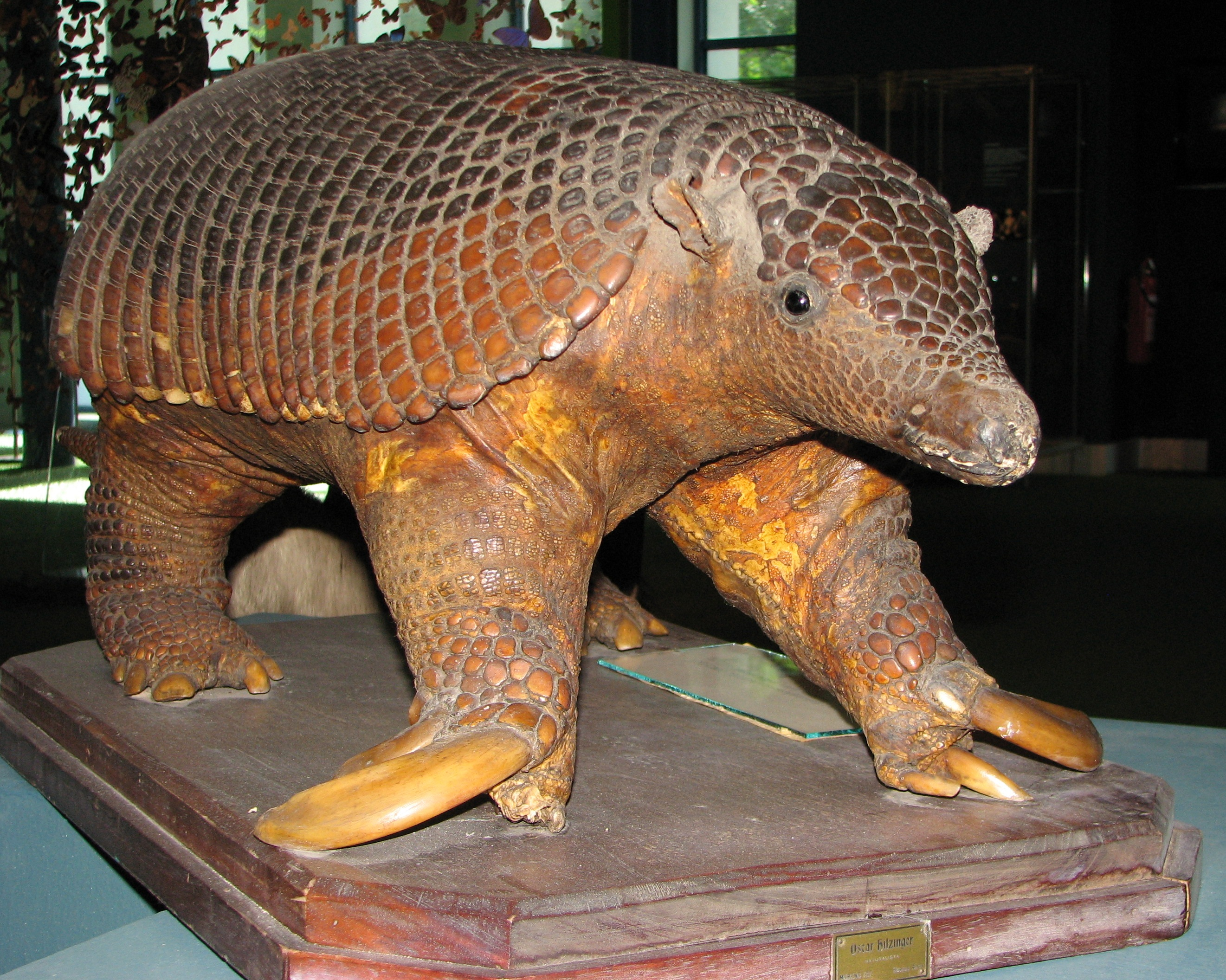 A stuffed specimen of the Giant Armadillo, photographed in Brno, borrowed from the National Museum in Prague